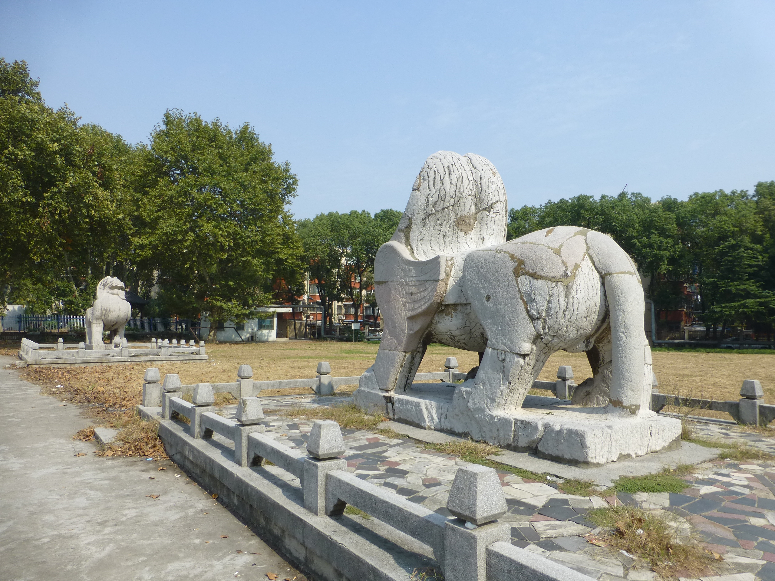 The two bixie (winged lions) at the Tomb of Xiao Rog in Nanjing.